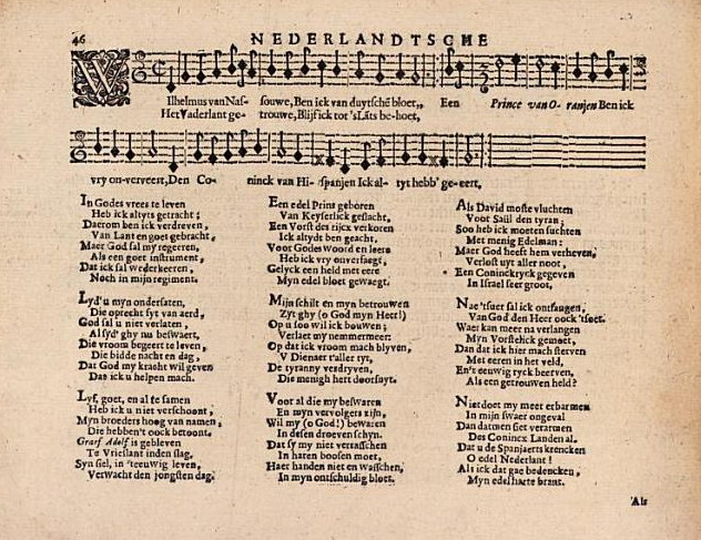 Oldest publication of Dutch national anthem "Wilhelmus" with tune, in "Nederlandtsche Gedenck-Clanck" by Adrianus Valerius, 1626